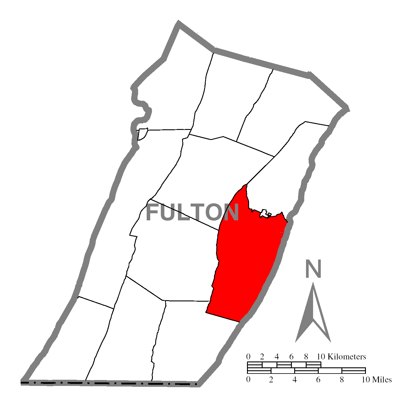 A map of Fulton County showing Ayr Township, Pennsylvania (alternate) highlighted on the map.